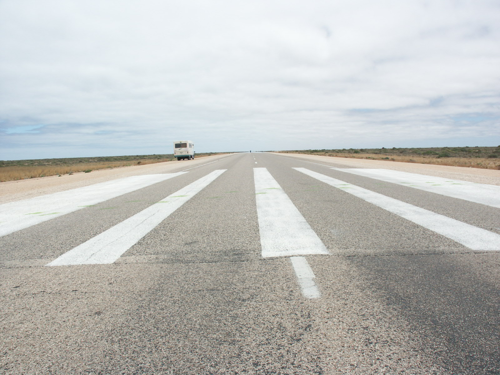 Eyre Highway, South Australia showing RFDS airstrip.